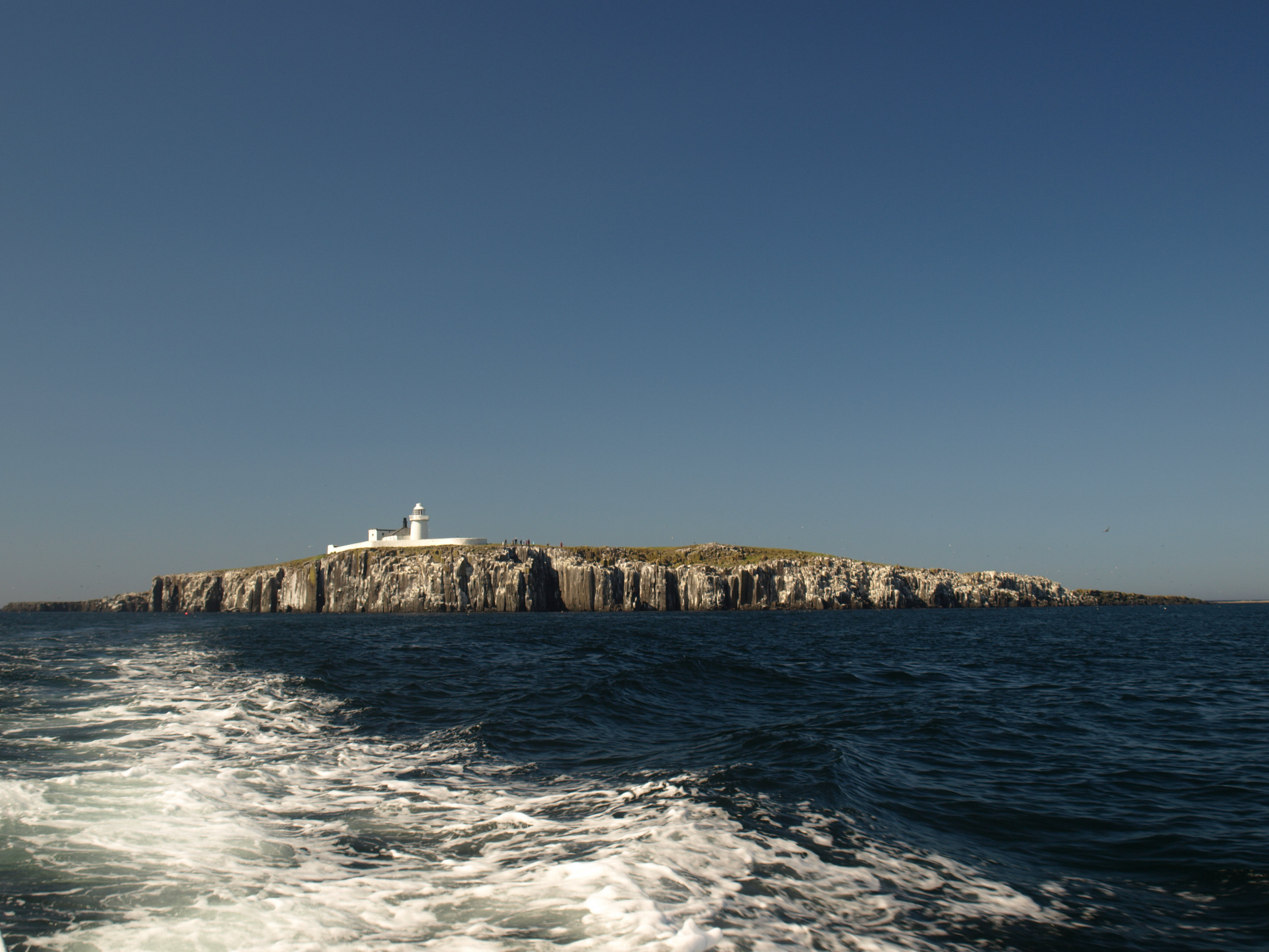 Inner Farne of the Farne Islands showing its lighthouse